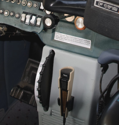 Elevator trim flap controlling wheel in cockpit of Cessna 172 airplane, on the left of the microphone.